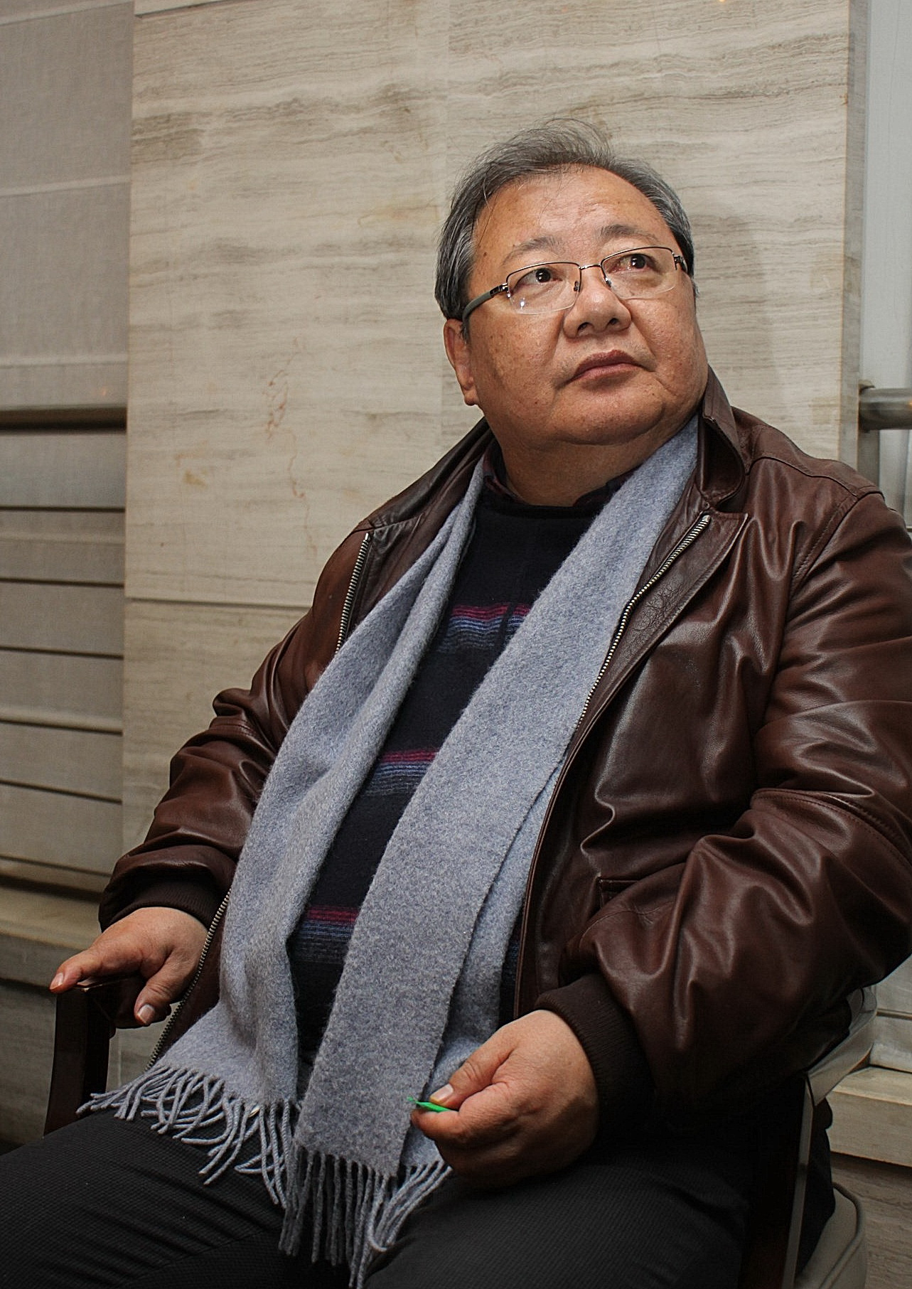 Portrait of J. Majia - Beijing 2017